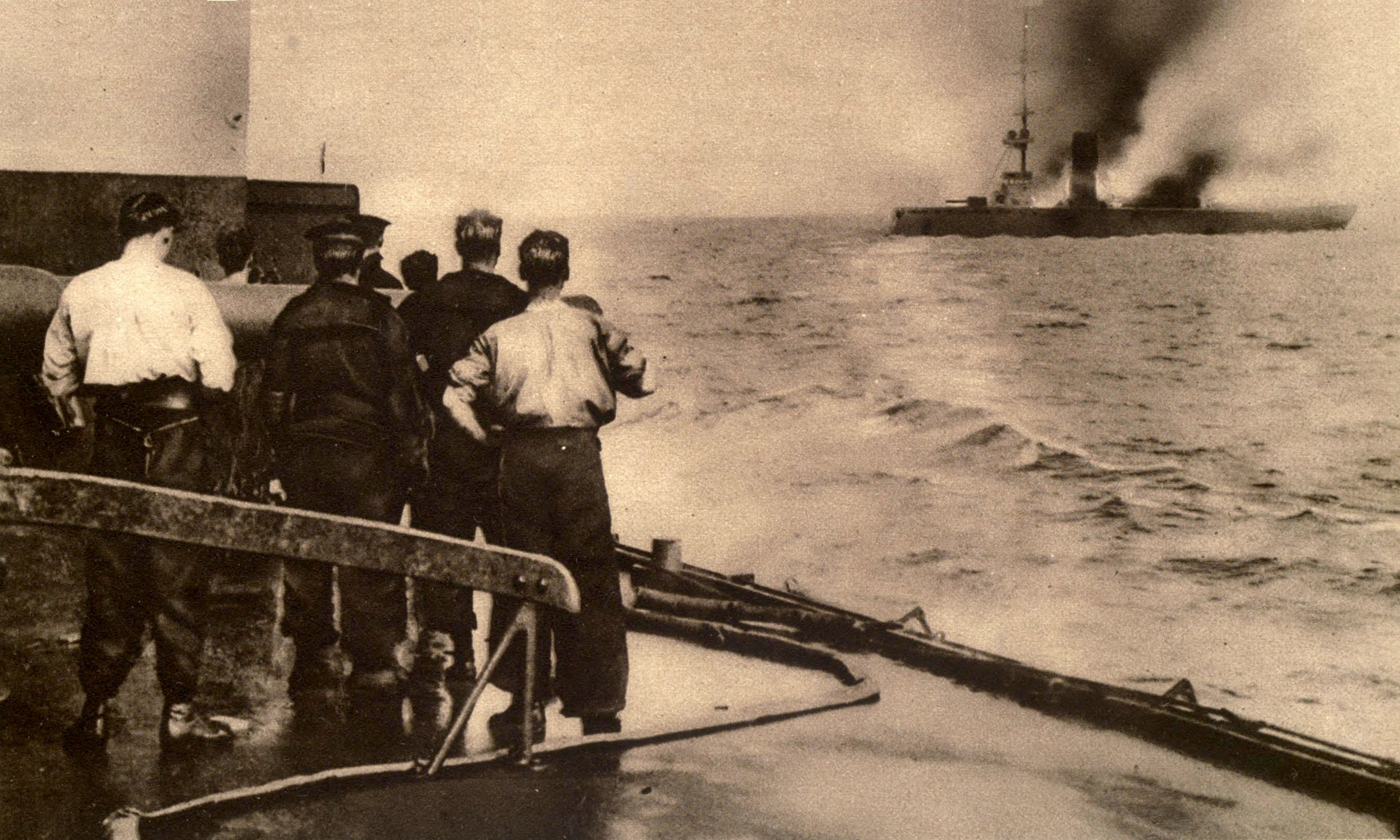 Sinking of the German cruiser Mainz in the Battle of Heligoland. The photograph, taken from the deck of a British warship, shows the cruiser in flames and settling in the water.